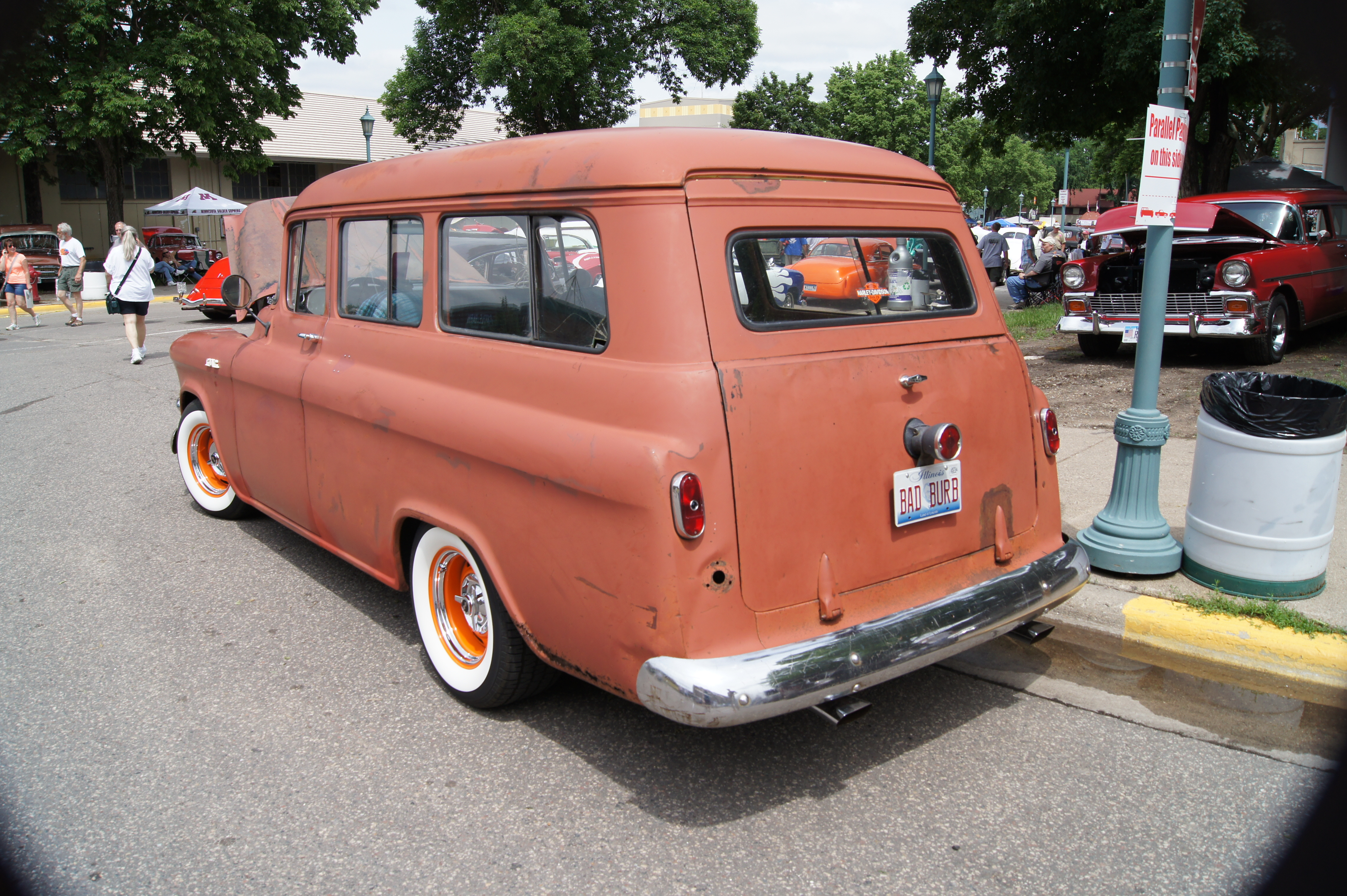 MSRA “BACK TO THE 50′s” 40th ANNIVERSARY June 21-23, 2013 State Fairgrounds St. Paul Minnesota More Car Pictures